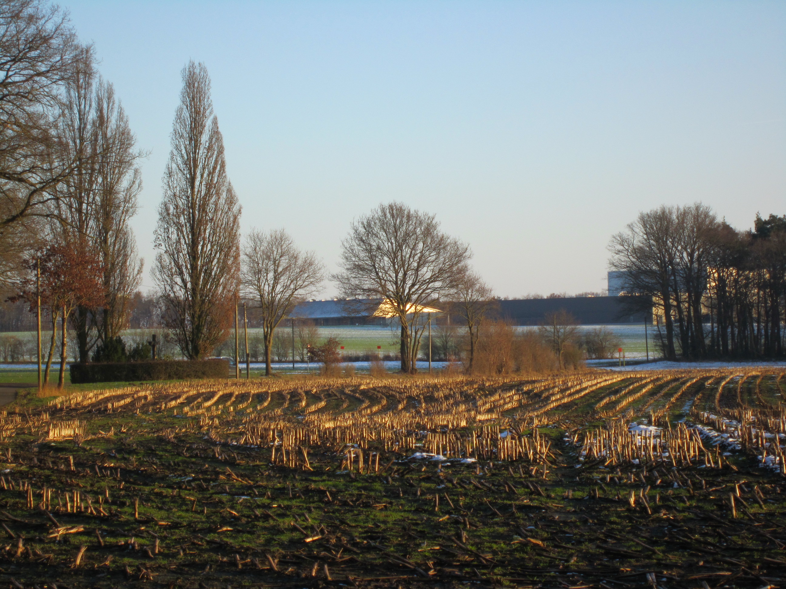 Landscape in "Oldenburger Münsterland" (north of Lohne): A wayside cross place at the edge of a harvested maize field; in the background a deep freeze stock building